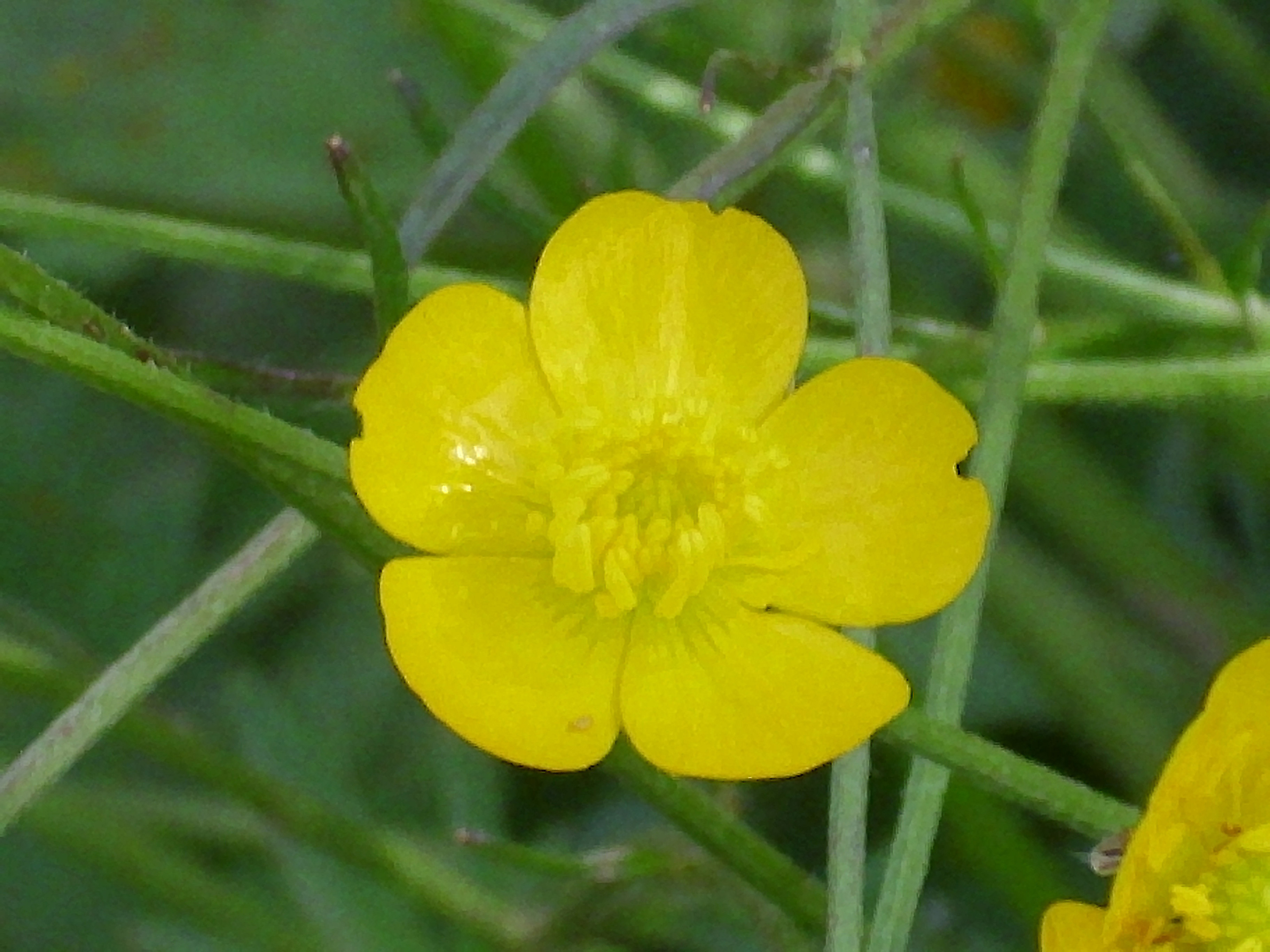 Ranunculus arvensis close up, Valderrepisa Sierra Madrona, Spain